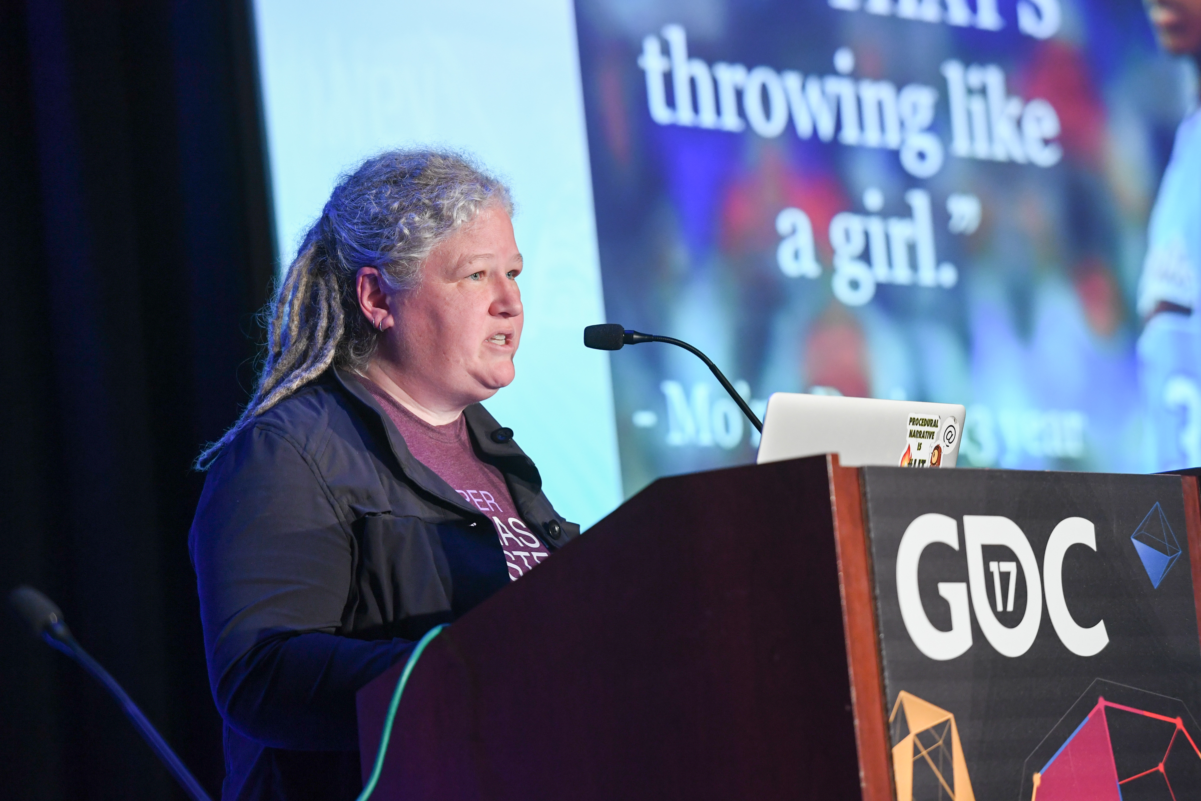 T. L. Taylor speaks at the 2017 Game Developers Conference on her work at the AnyKey organization.